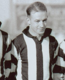 Photograph of Frank Booth in 1938